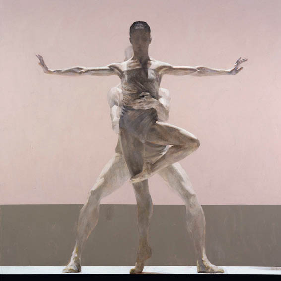 Finished painting in oil on board . The first of a series of paintings and studies on the ballet, 'Chroma'. This piece was subsequently produced as a limited-edition serigraph